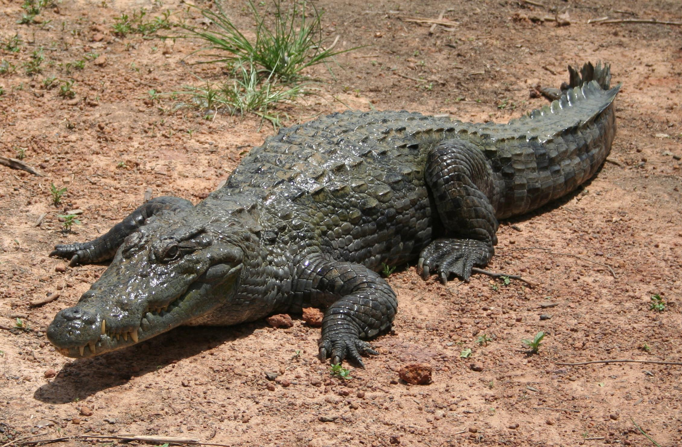 Sacred crocodiles of Bazoulé, Burkina Faso.